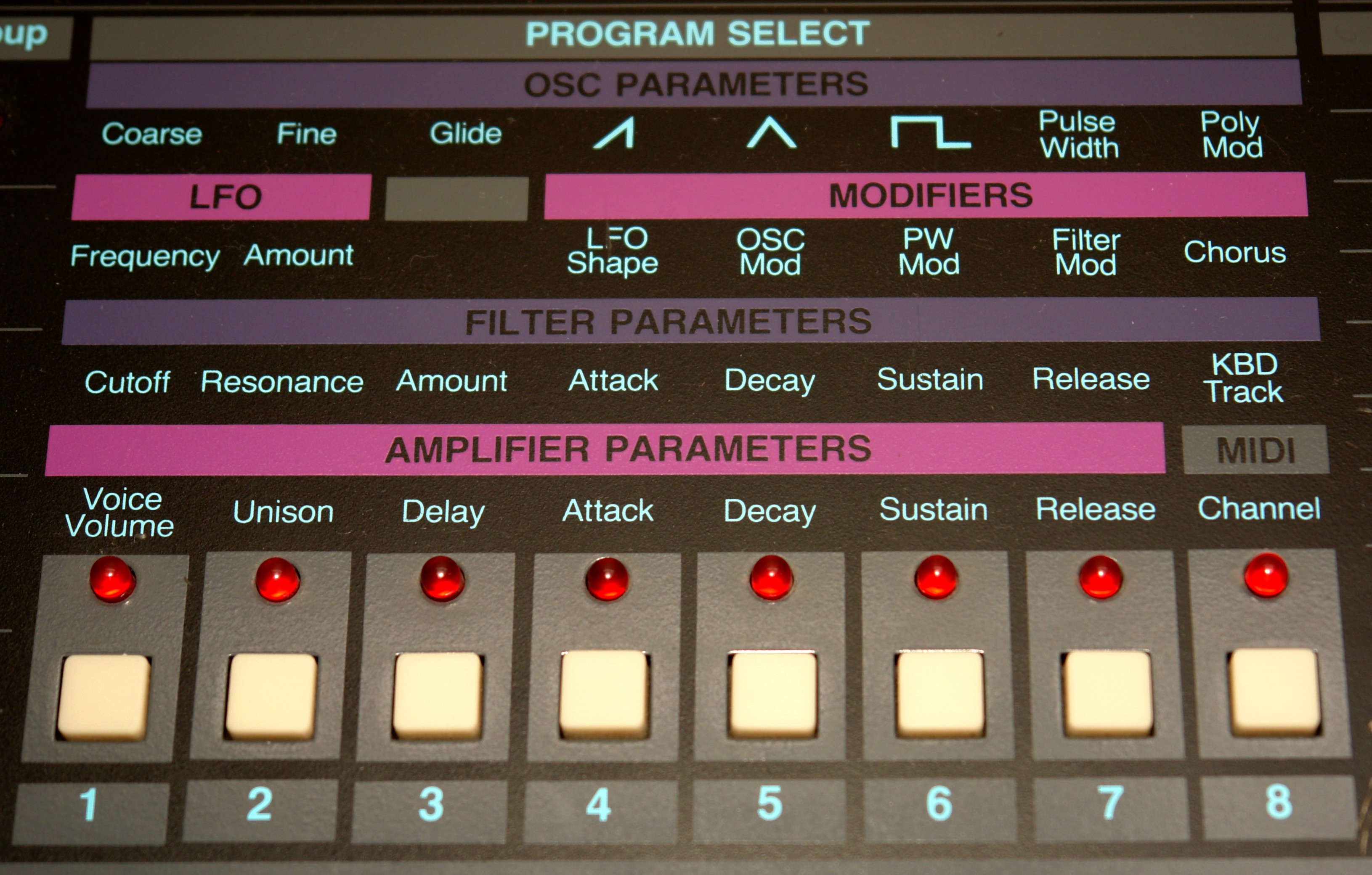 Photo by User:Rwintle. The programming grid of a Sequential Circuits Split-8 synthesizer.